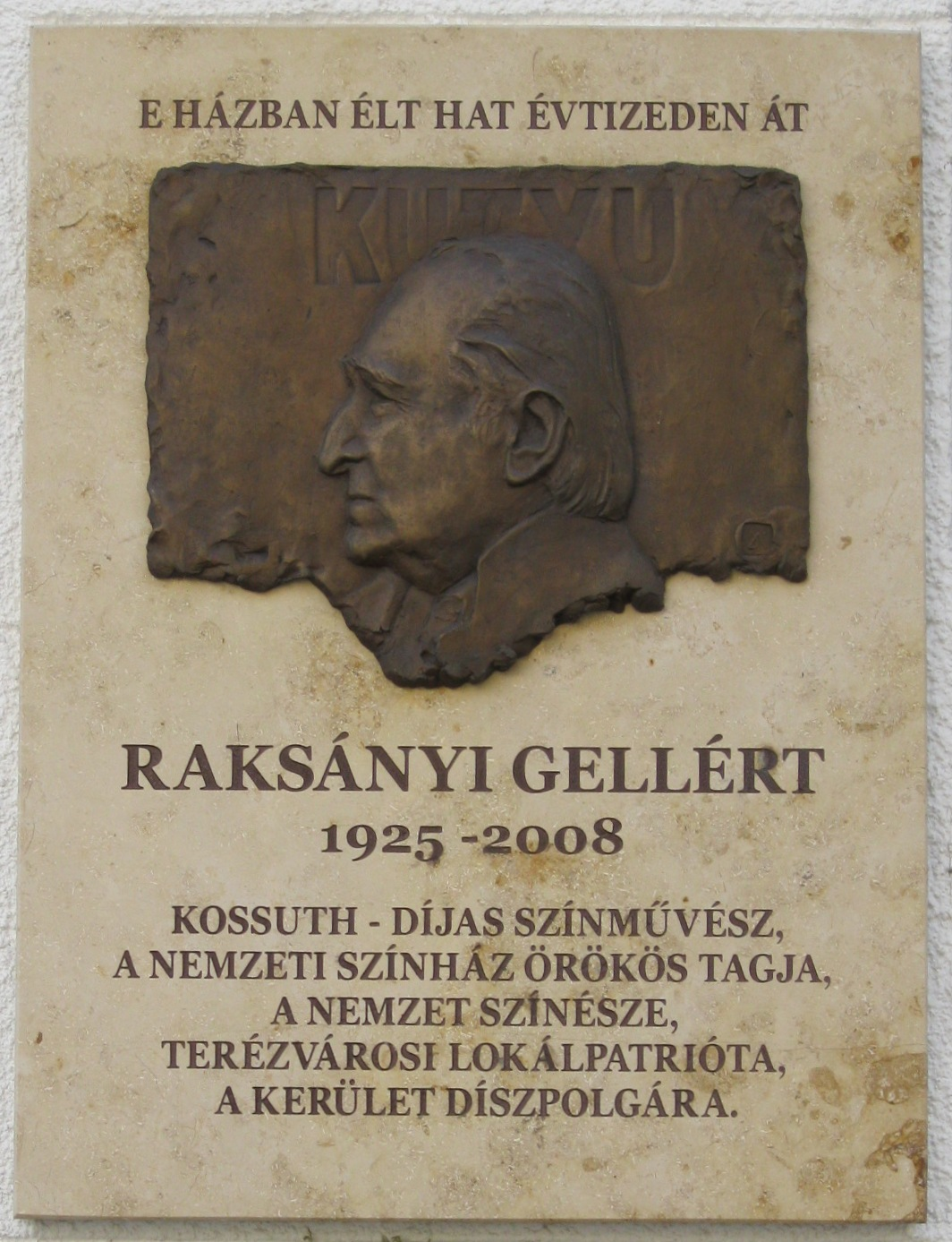 Commemorative plaque of Gellért Raksányi, Budapest District VI, Rippl-Rónai Street No 16